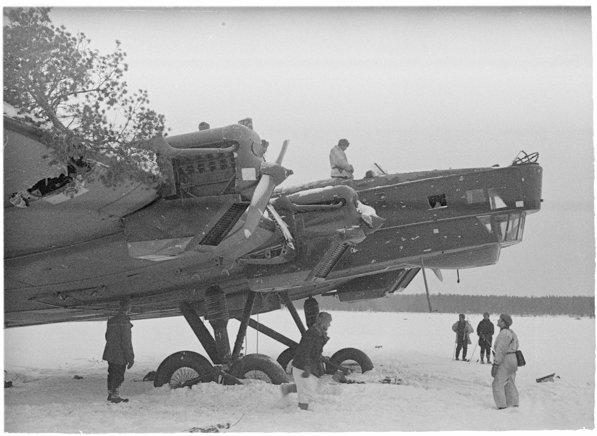 Tupolev TB-3 bomber captured by Finnish troops after emergency landing.